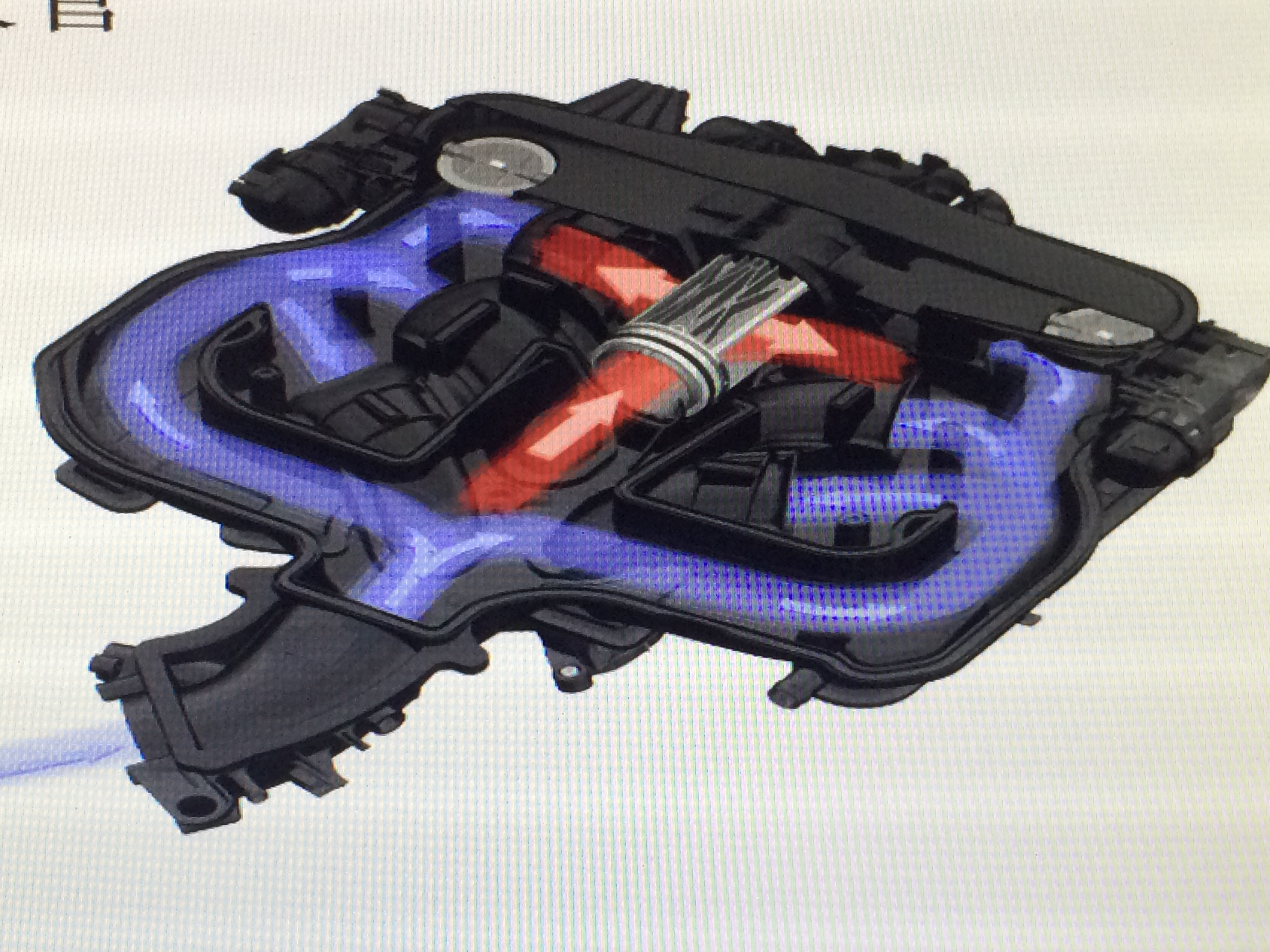 M276 intake manifold animated